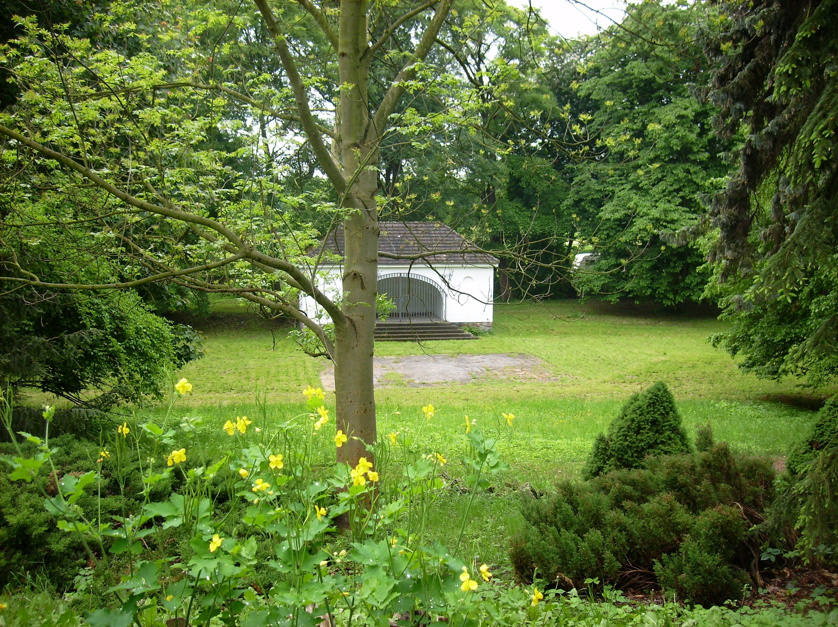 Theatrium in the gardens of Ermlitz estate (Schkopau, district of Saalekreis, Saxony-Anhalt)